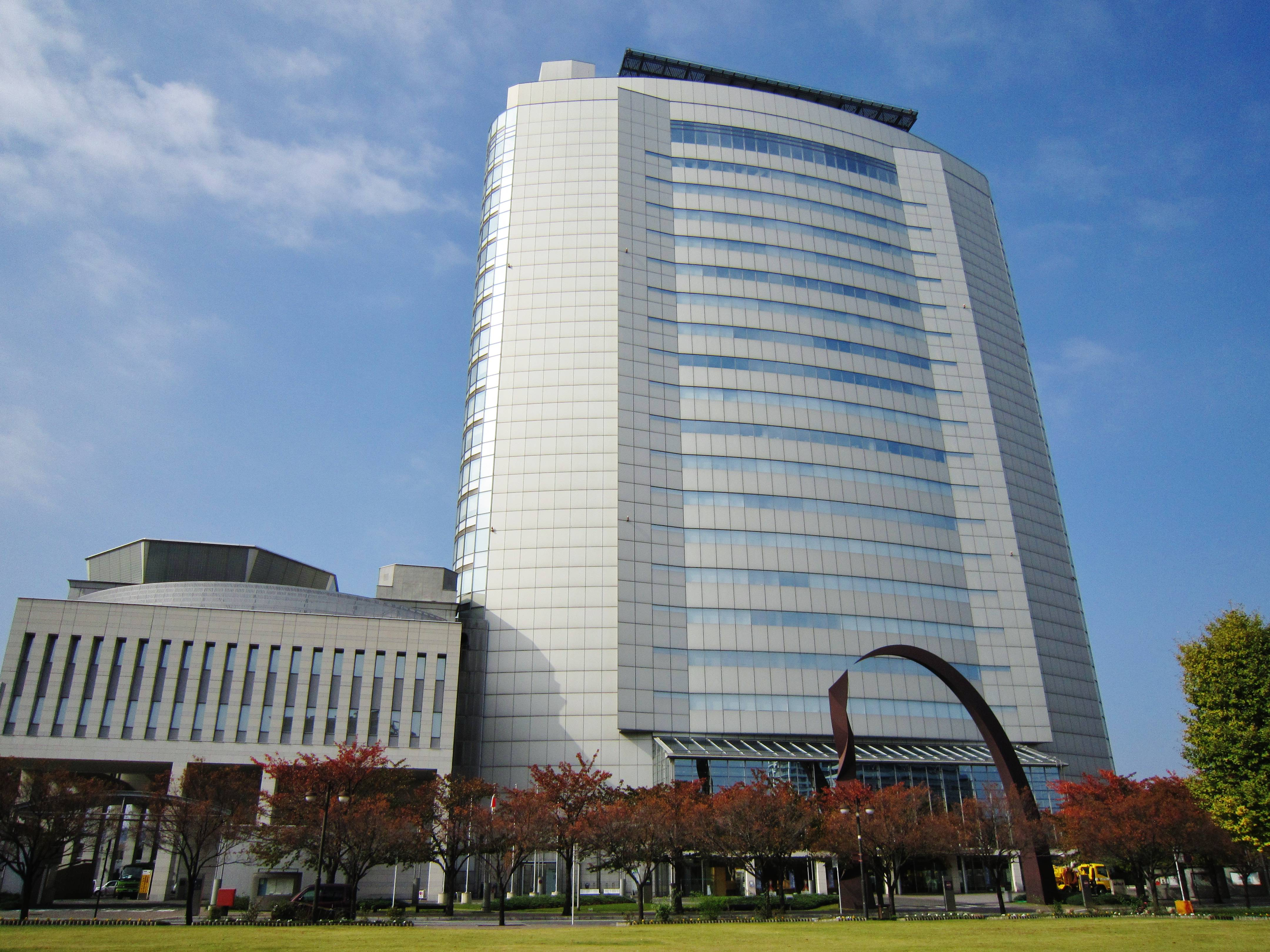 Takasaki city office.